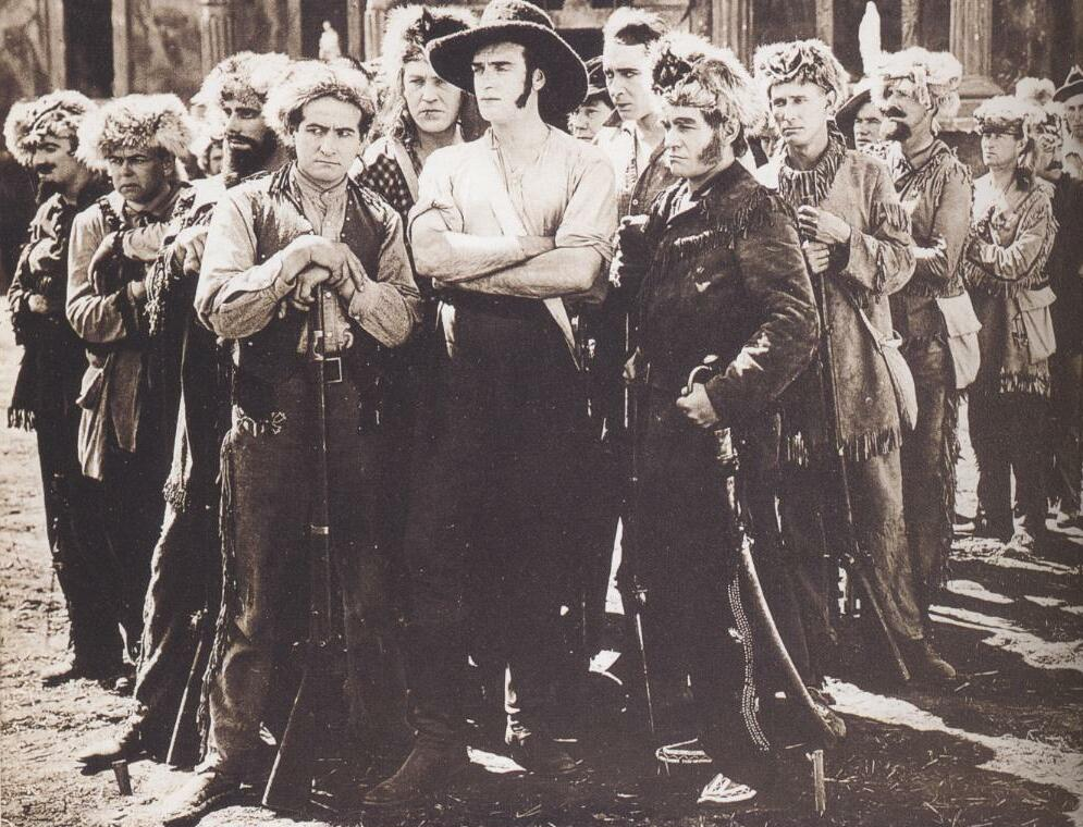 This is a screenshot from the 1915 movie Martyrs of the Alamo or The Birth of Texas. It is reprinted in Frank Thompson's 2005 book The Alamo. Alfred Paget (center), Sam De Grasse.